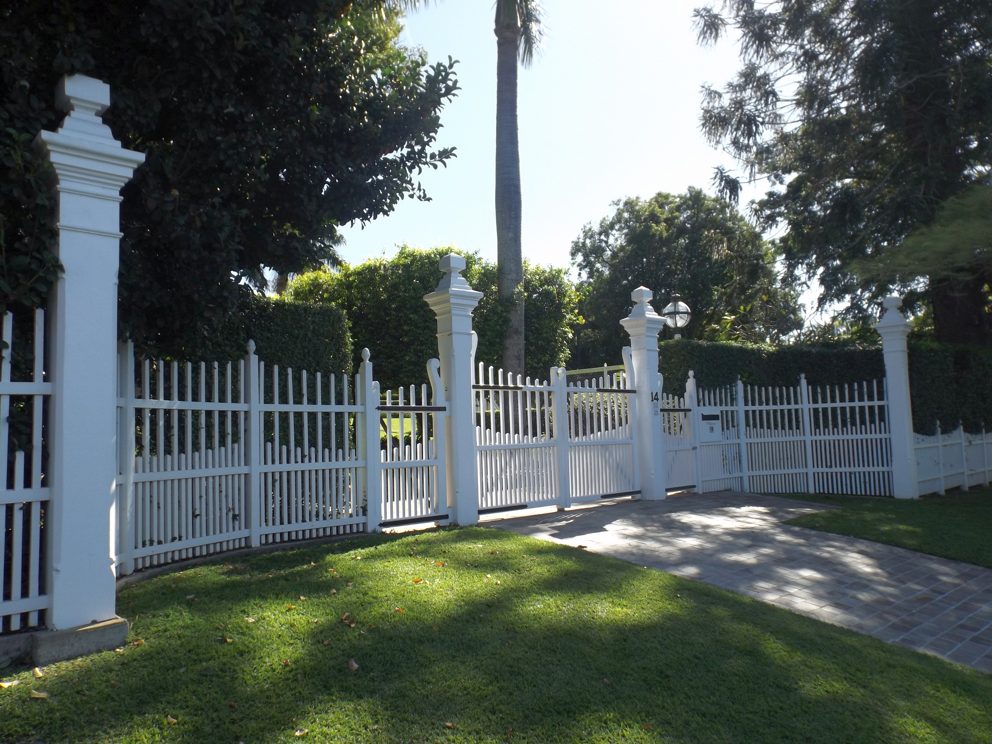 Photo of the gates to Windermere at Ascot, Brisbane, Queensland, Australia.